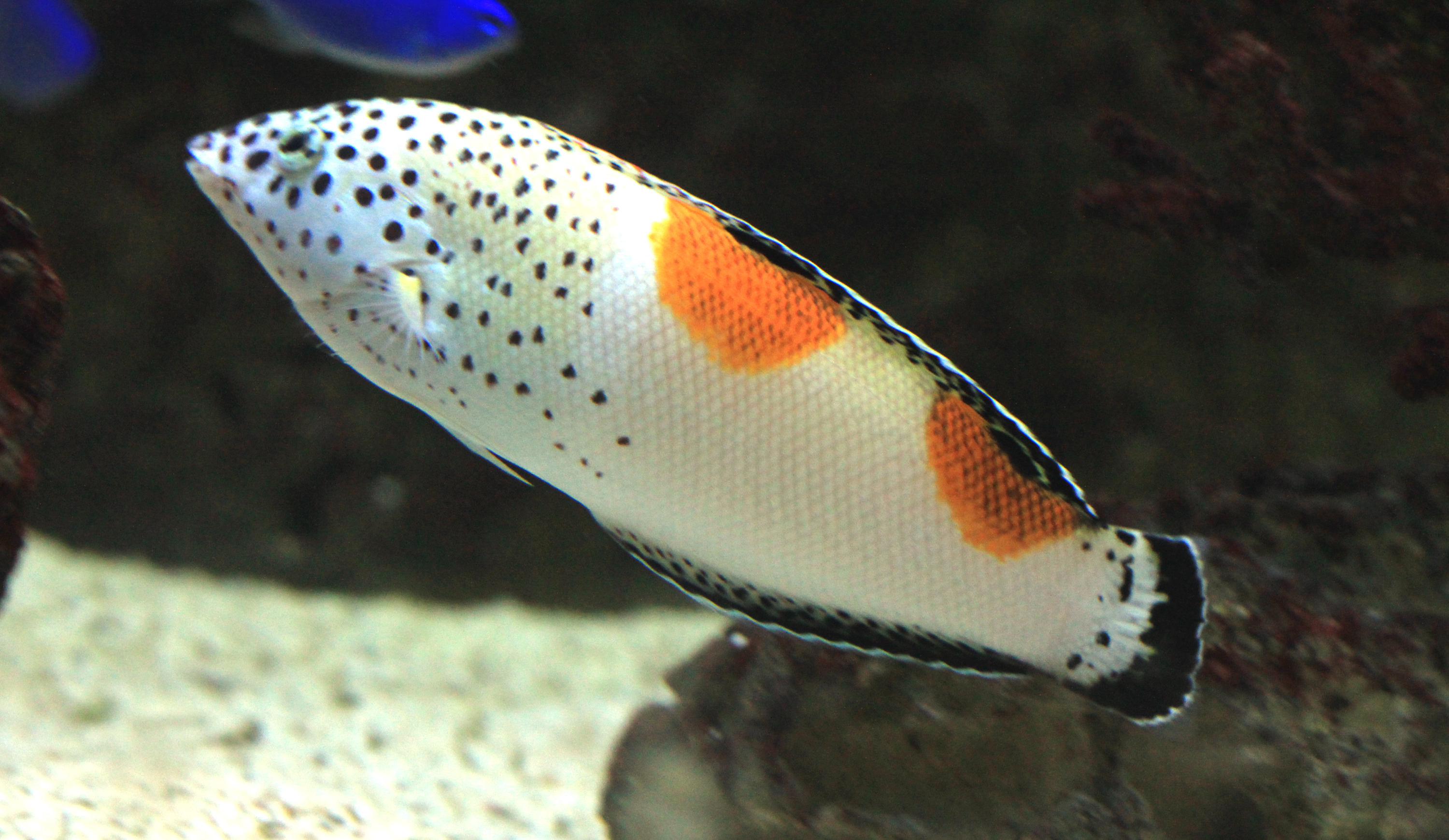 Fish Clown coris, (Coris aygula) in Prague sea aquarium “Sea world”, Czech Republic